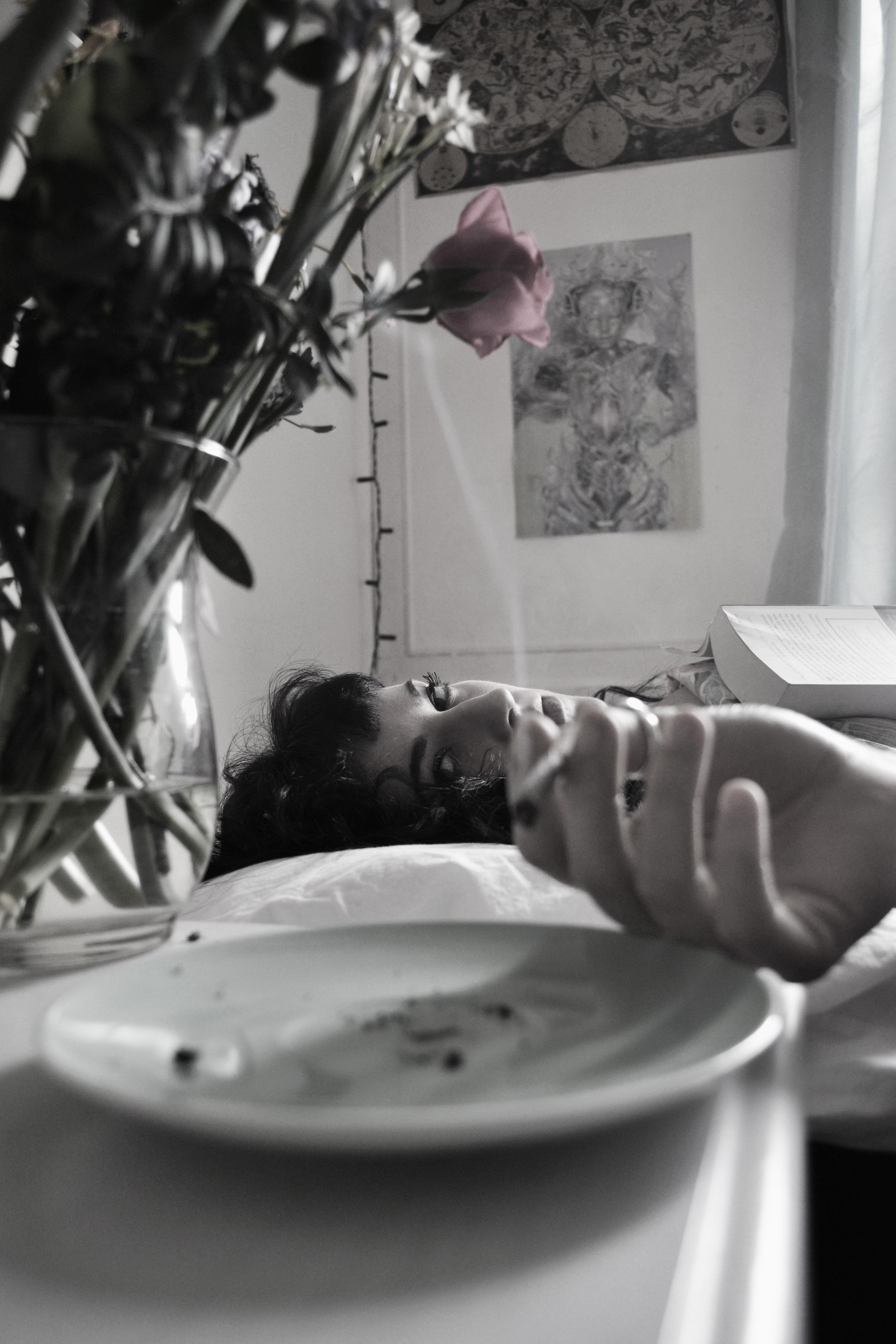 hayleydarbyshireblackrose